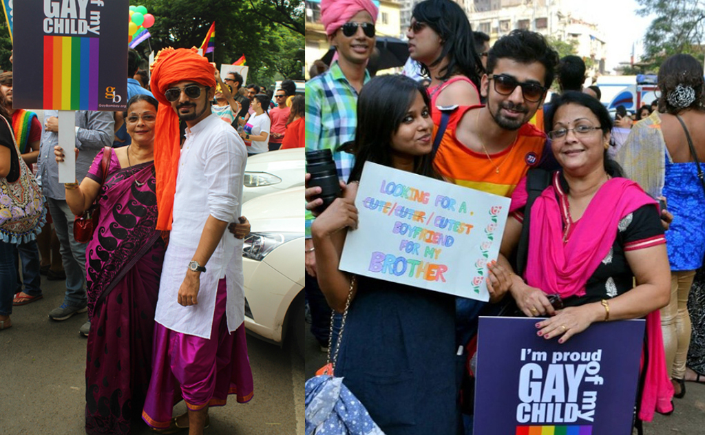 In first picture Nakshatra Bagwe with his mother, Swati Bagwe at Pune LGBT Pride and in second picture Nakshatra with his mother, Swati and sister, Samiksh Mirashi at Mumbai LGBT Pride march.